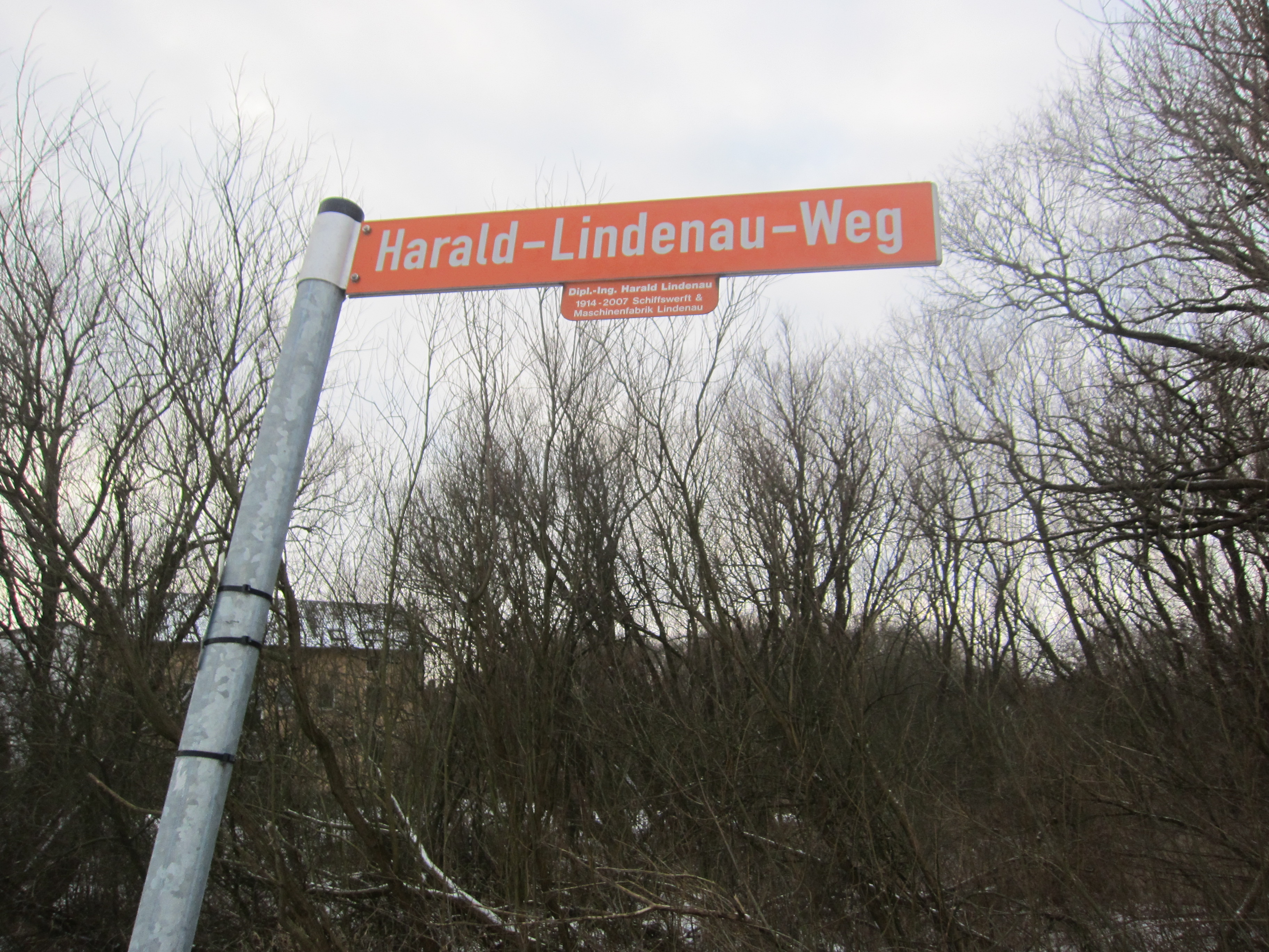 Street sign "Harald-Lindenau-Weg" in Kiel-Friedrichsort